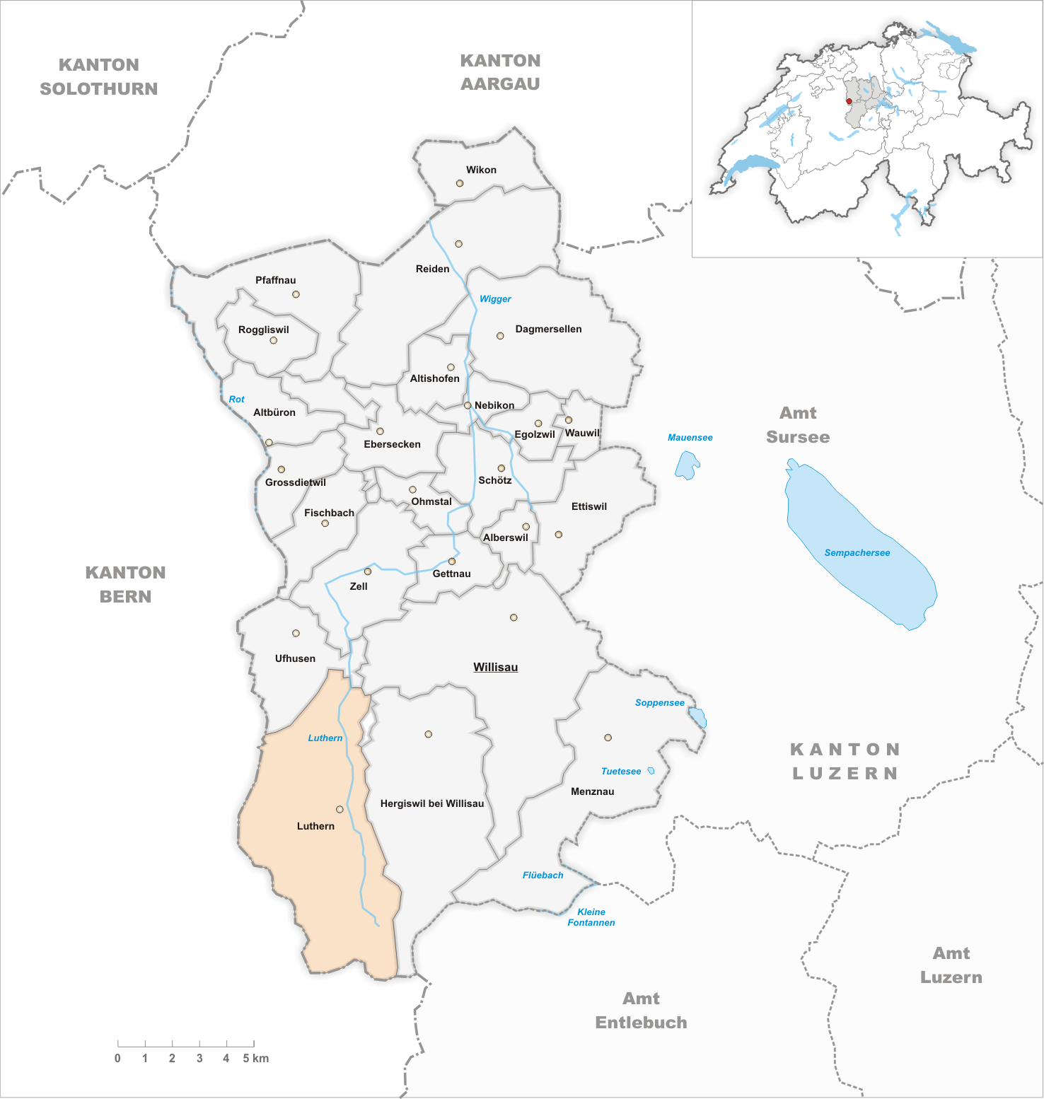 Municipality Luthern